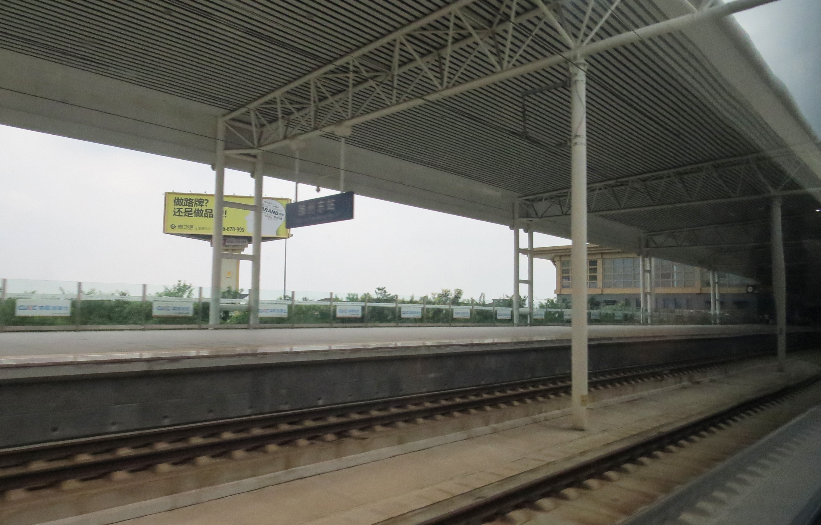 Just a fleeting glimpse on G27.